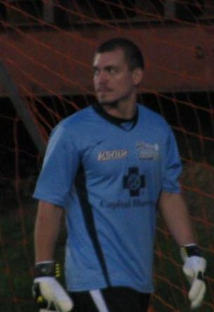 Jay Herford taken at a Harrisburg City Islander game in spring 2009 at City Island Harrisburg, PA